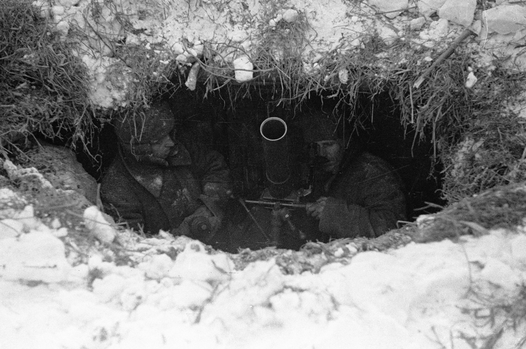 “Mortar Men”. Mortar men in entrenched firing positions on the approaches to Moscow.